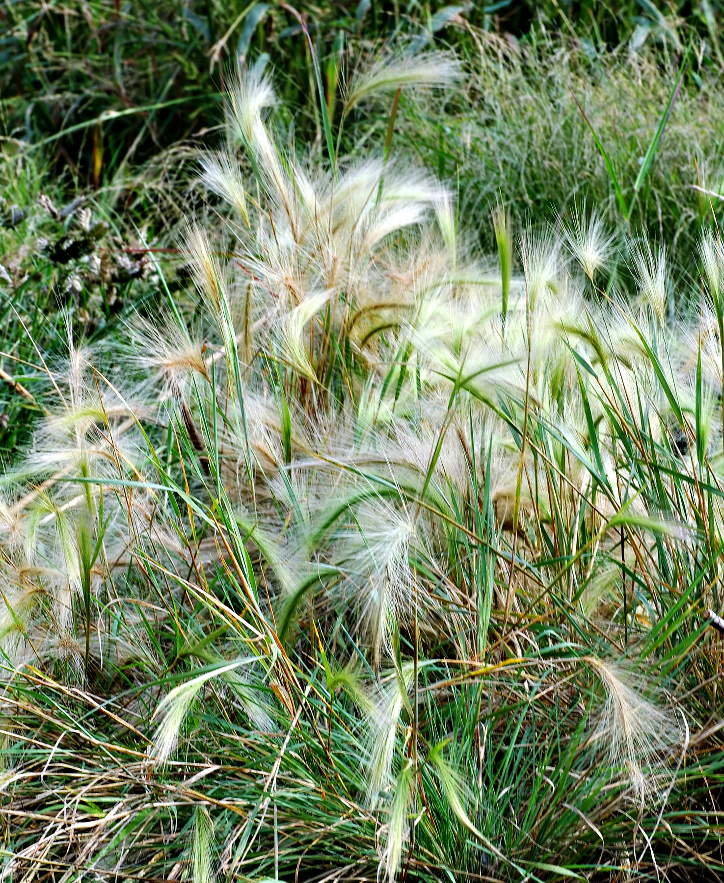 This image shows a few Foxtail barley plants (Hordeum jubatum).